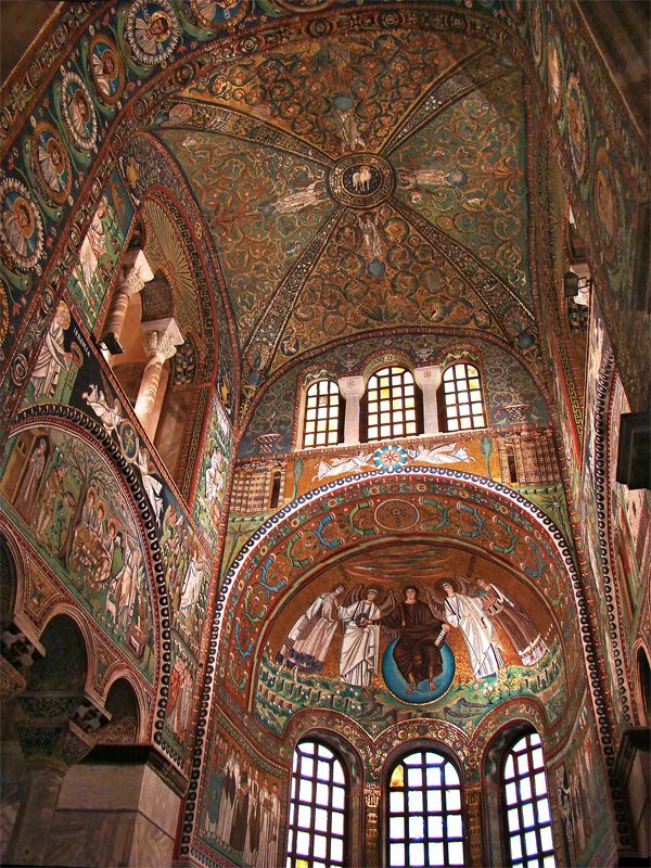 Basilica of San Vitale, Ravenna, Emilia-Romagna, Italy. The apse.